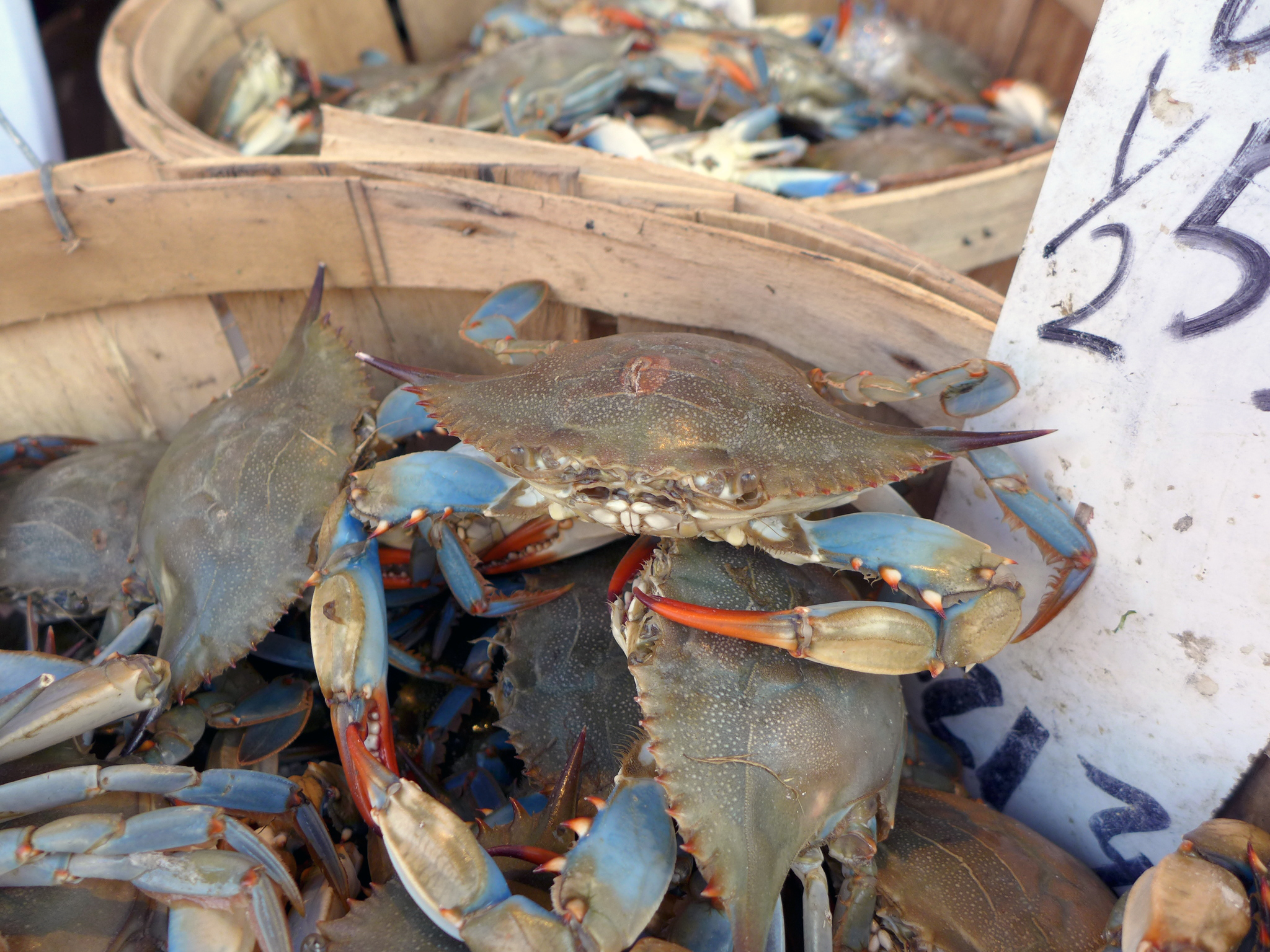 Live crabs for sale. Canal Street, Chinatown, NYC, August 2013.